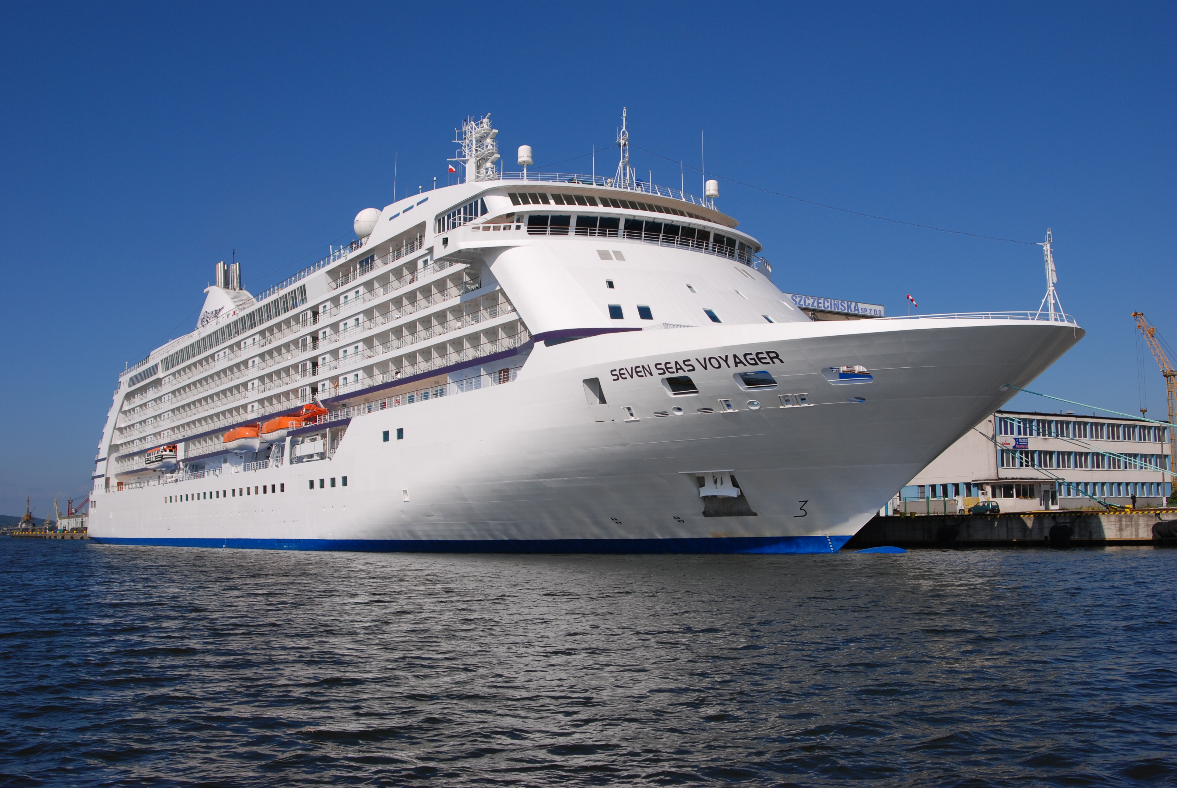 MS Seven Seas Voyager